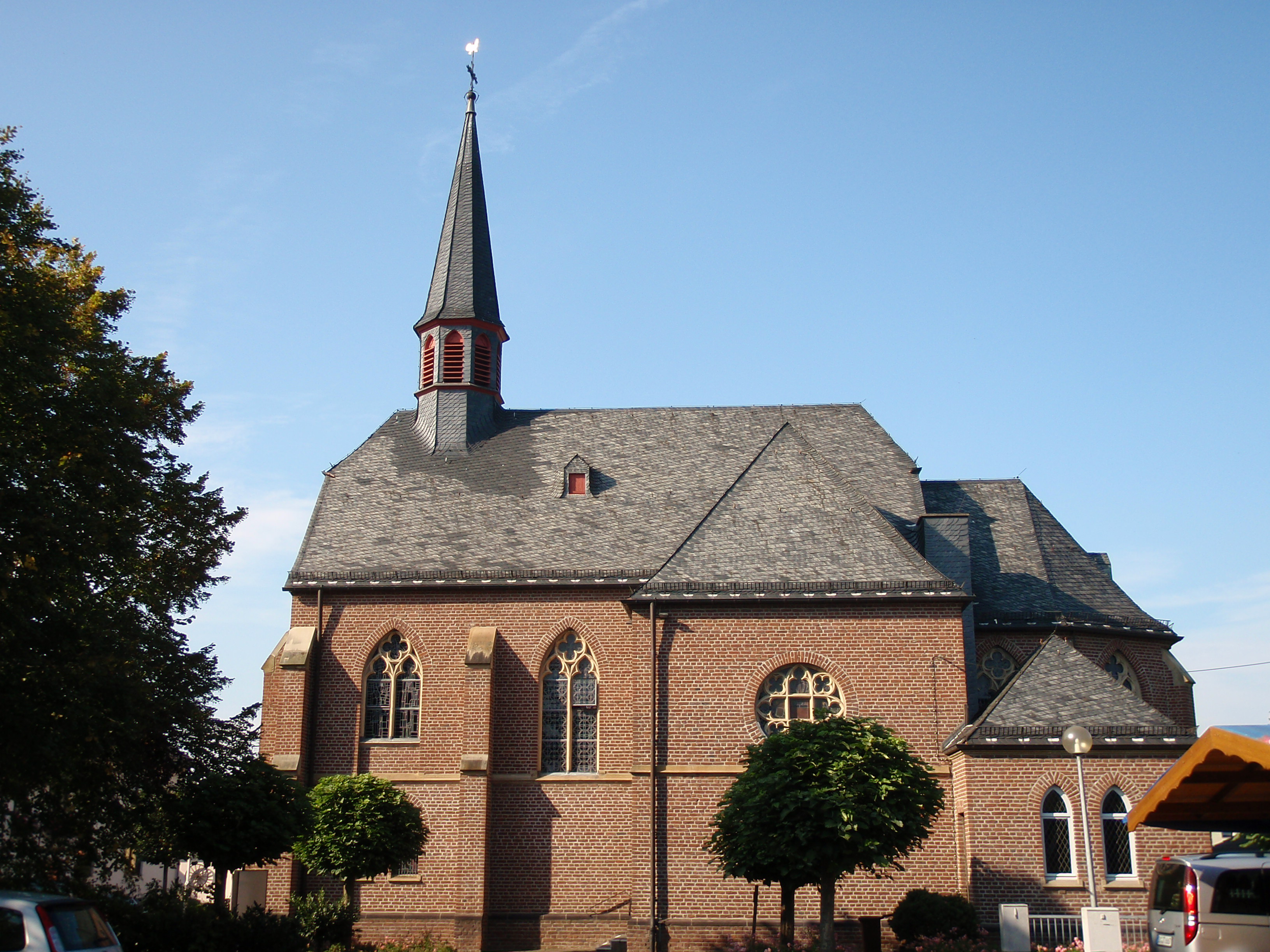 Catholic chapel of ease St. Maria Rosenkranzkönigin in Sankt Augustin, Germany.